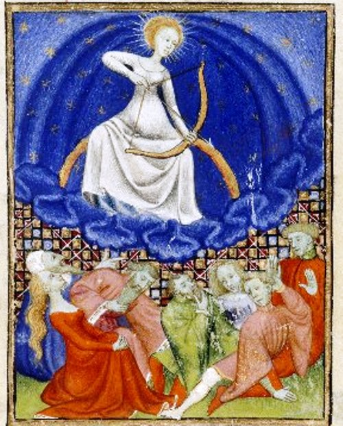 Phoebe, sitting on a rainbow with bow and arrow, looks upon people below her